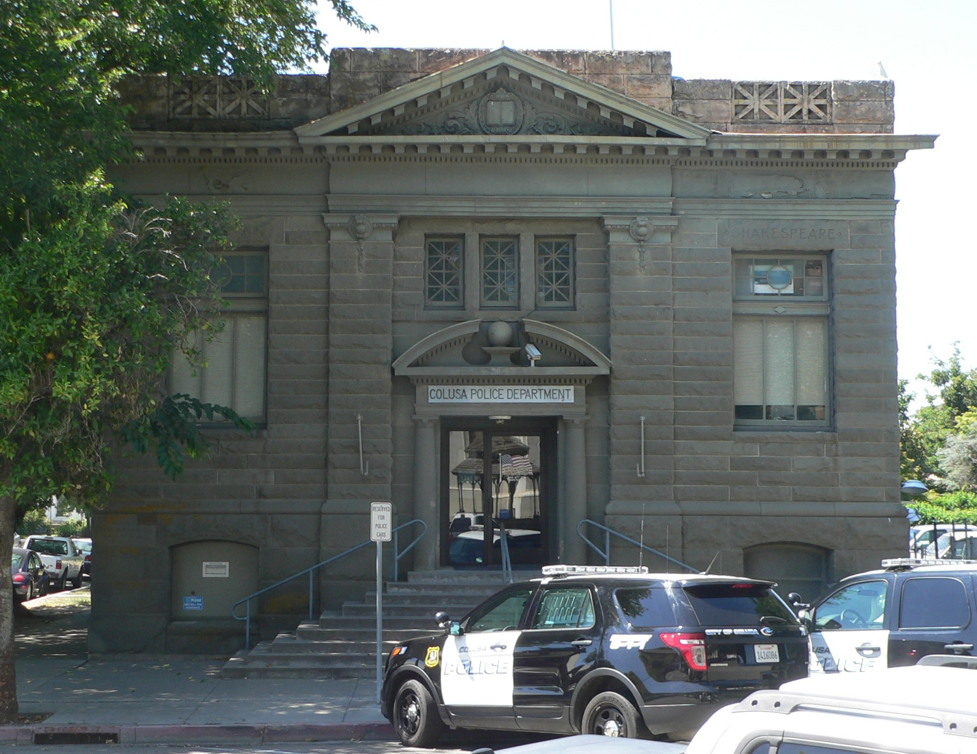 Colusa Police Department, formerly Carnegie library, located at 260 6th Street in Colusa, California; seen from the southeast, across 6th.